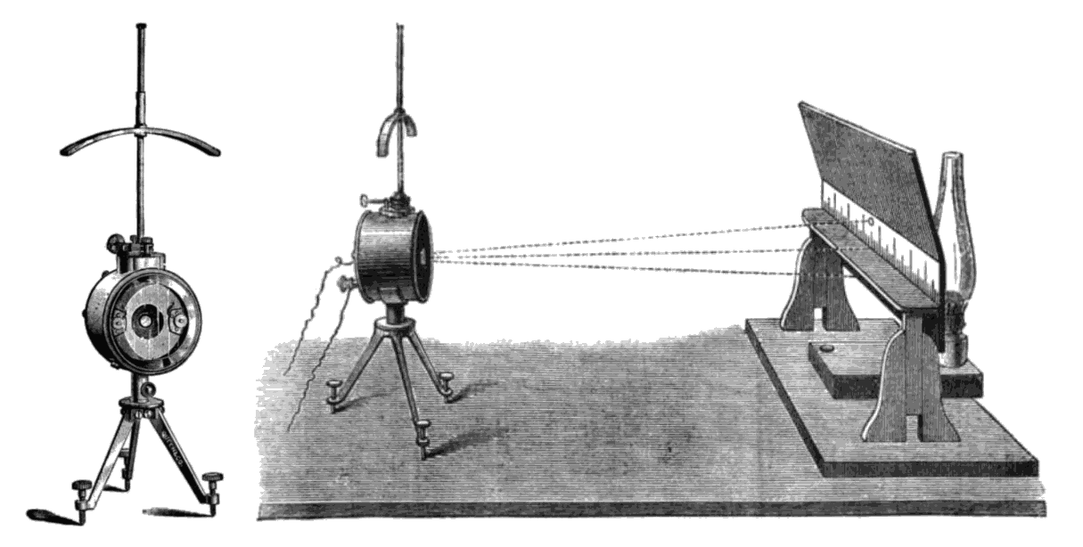 Drawing of a Thomson reflecting galvanometer from around 1880, showing use. The vertical tube contains a fine silk fiber, which suspends a 1/2 in. mirror with small magnets on its back, seen in window, in the center of a coil of wire. A light beam reflected from the mirror lands on a scale and serves as a pointer. Tom Perera's Scientific instrument collection says this was a Model 502, made by Elliot Bros., London. It has interchangeable coils of from 150 to 5000 ohms resistance. The left drawing is from Schneider, the right from Thompson. Alterations: removed captions, rotated Schneider image so it was vertical, scaled Thompson image by 0.60, combined images.